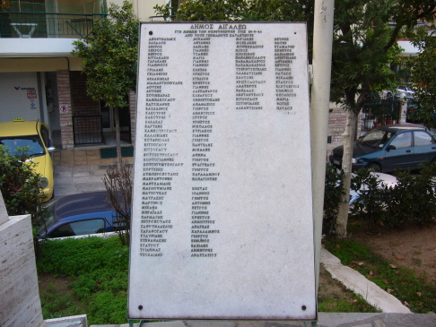 The names of the victims on the monument dedicated to the Egaleo massacre of WWII, at Egaleo, Greece